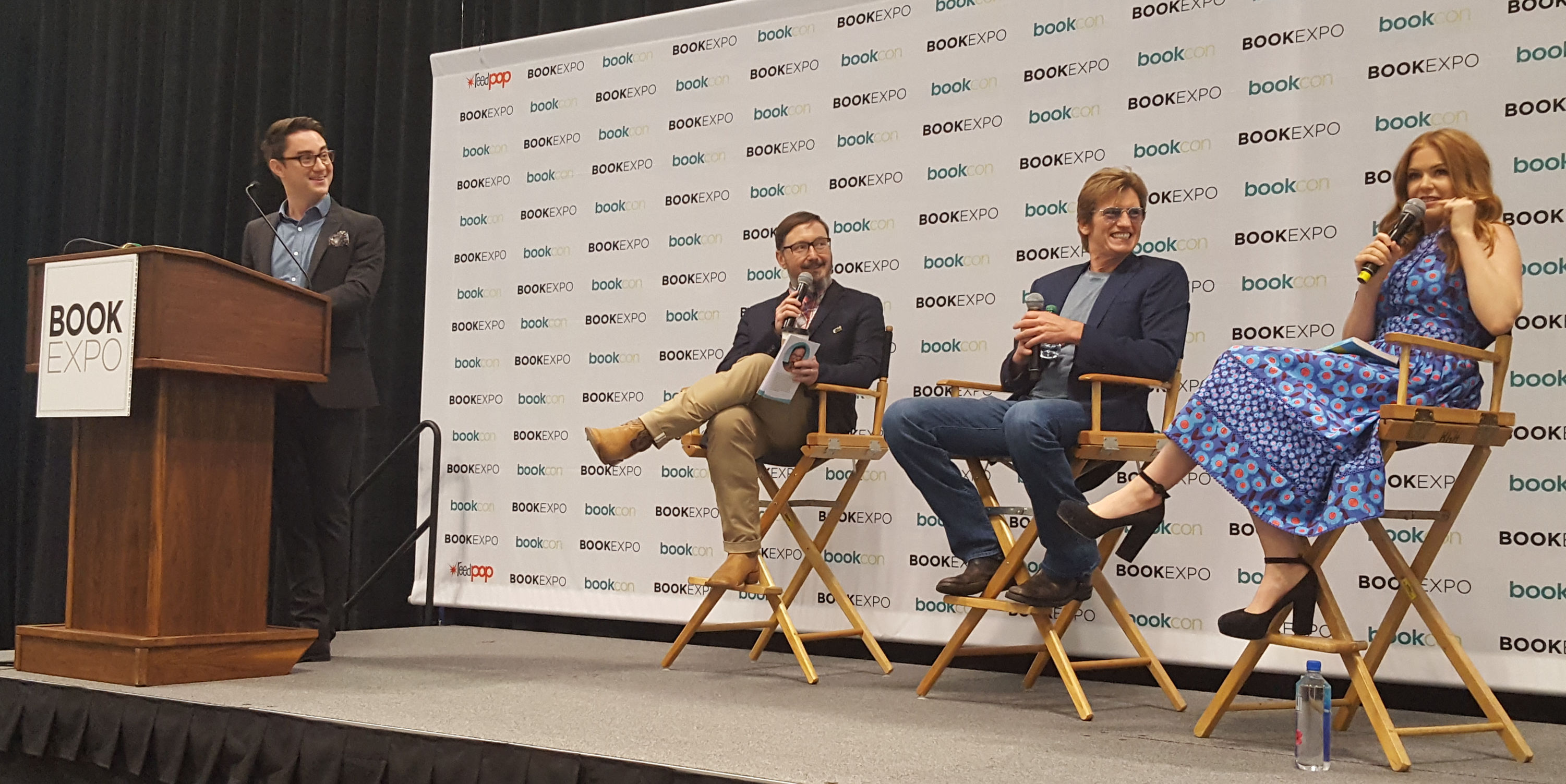 Panel includes John Hodgman, Dennis Leary and Isla Fisher